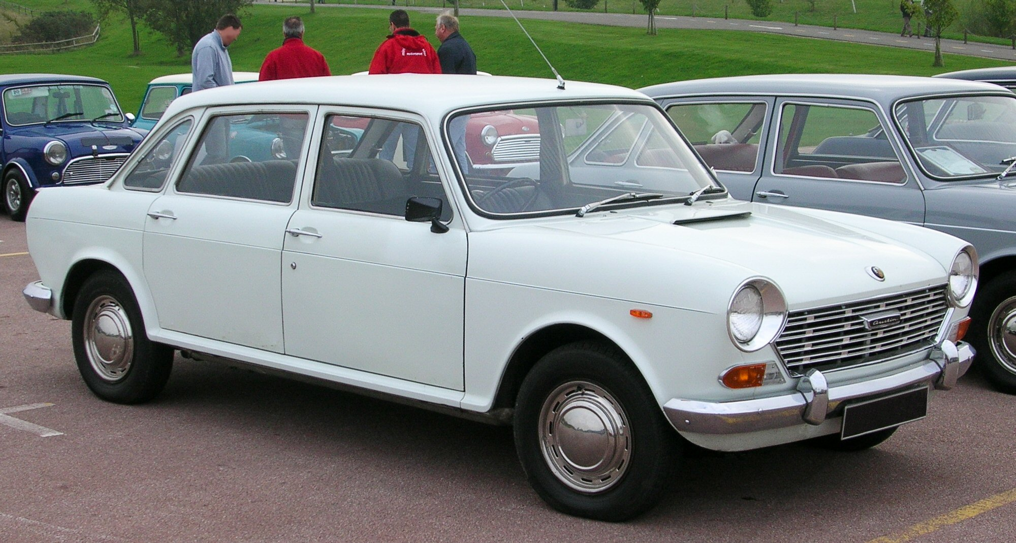 A 1969 Austin 1800 Mk II Automatic. Photographed at the Alec Issigonis centenary rally at the Heritage Motor Centre, Gaydon, UK.